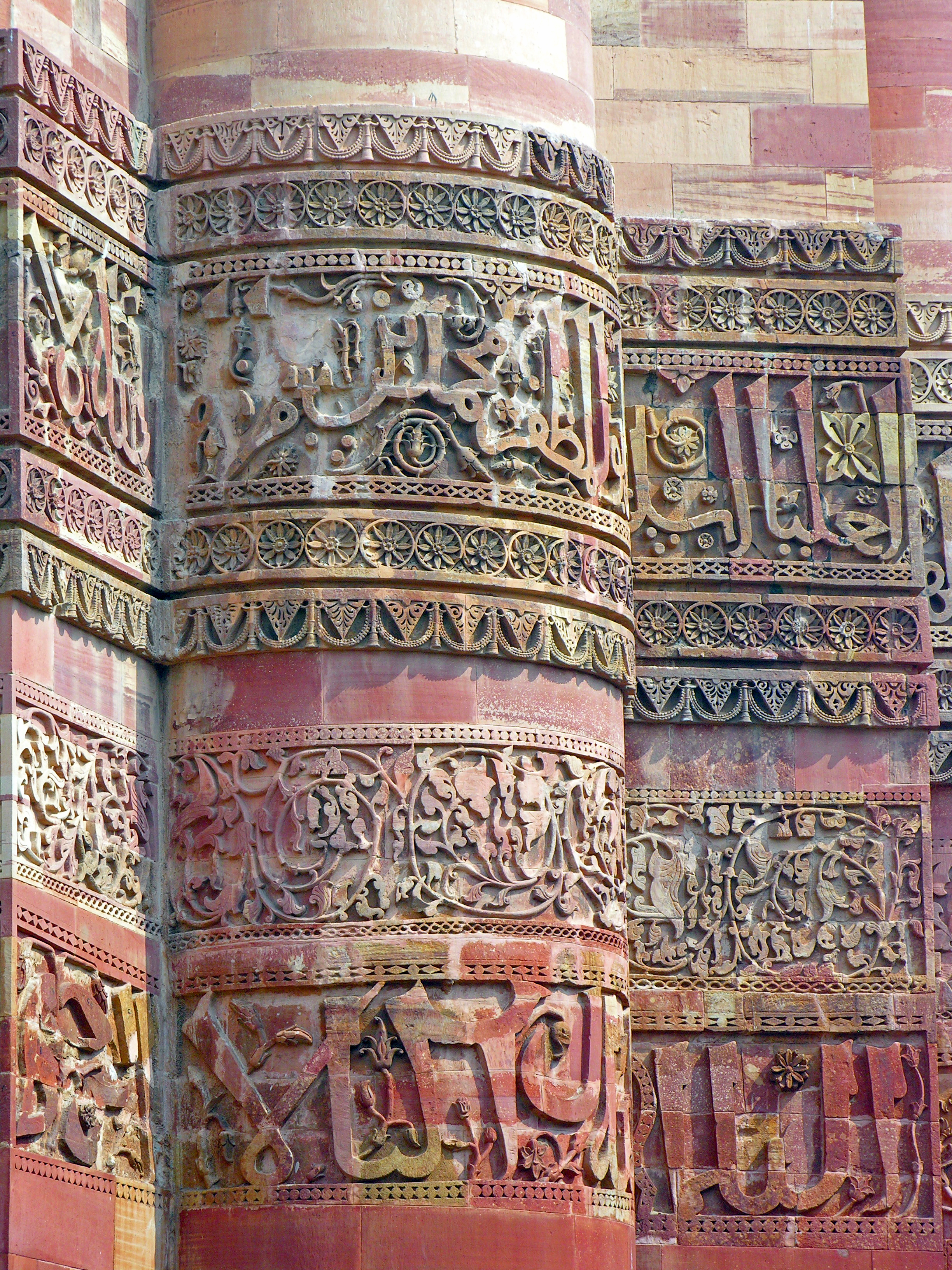 Decoration of the Qutab Minar is consistently Islamic in character from base to top. Numerous inscriptions in Arabic and Nagari characters are seen as wide encircling bands in the plain fluted masonry of the Minar.